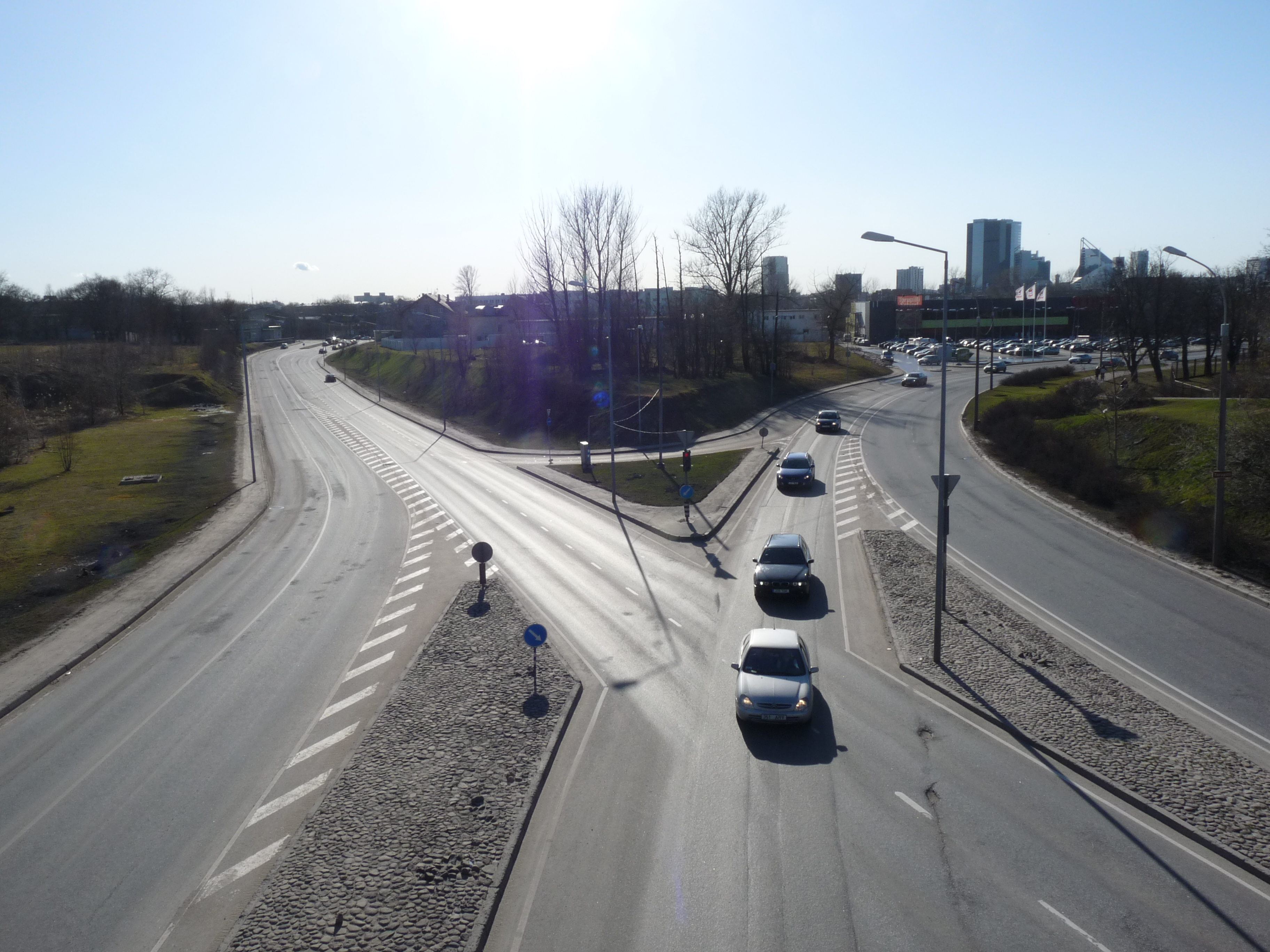 Intersection of Laagna and Gonsiori streets